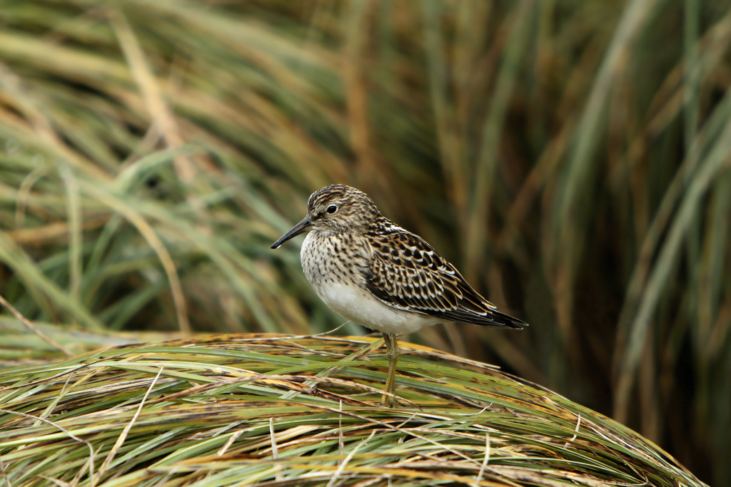 This Pectoral Sandpiper was searching for food in the mud flats of Hyder, Alaska. It was a misty day with moisture precipitating out of the air, and there is a bead of moisture dripping off the end of it's beak.